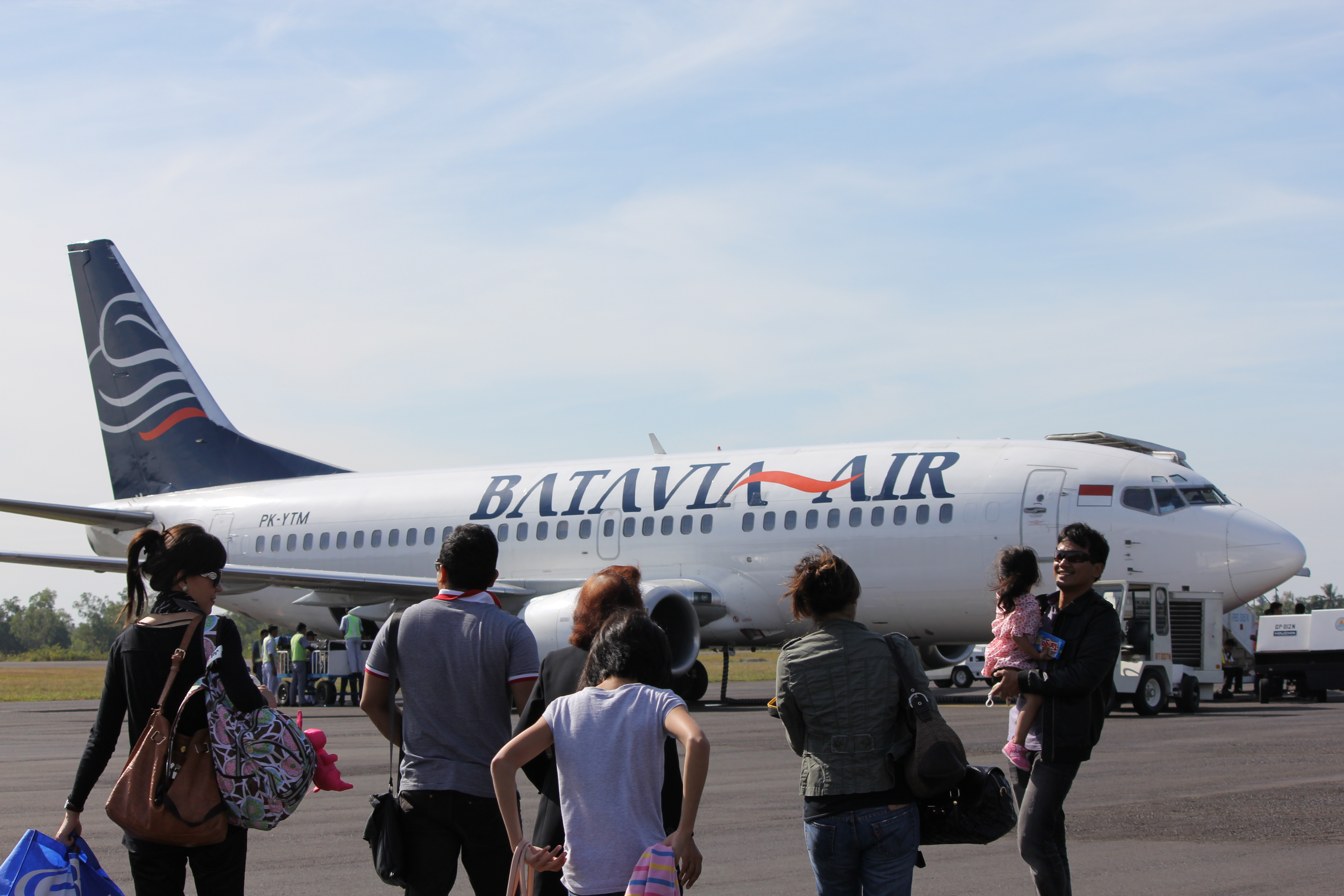 A Batavia Air 737-300 waits for its passengers at Bandar Lampung's Radin Inten 2 Airport